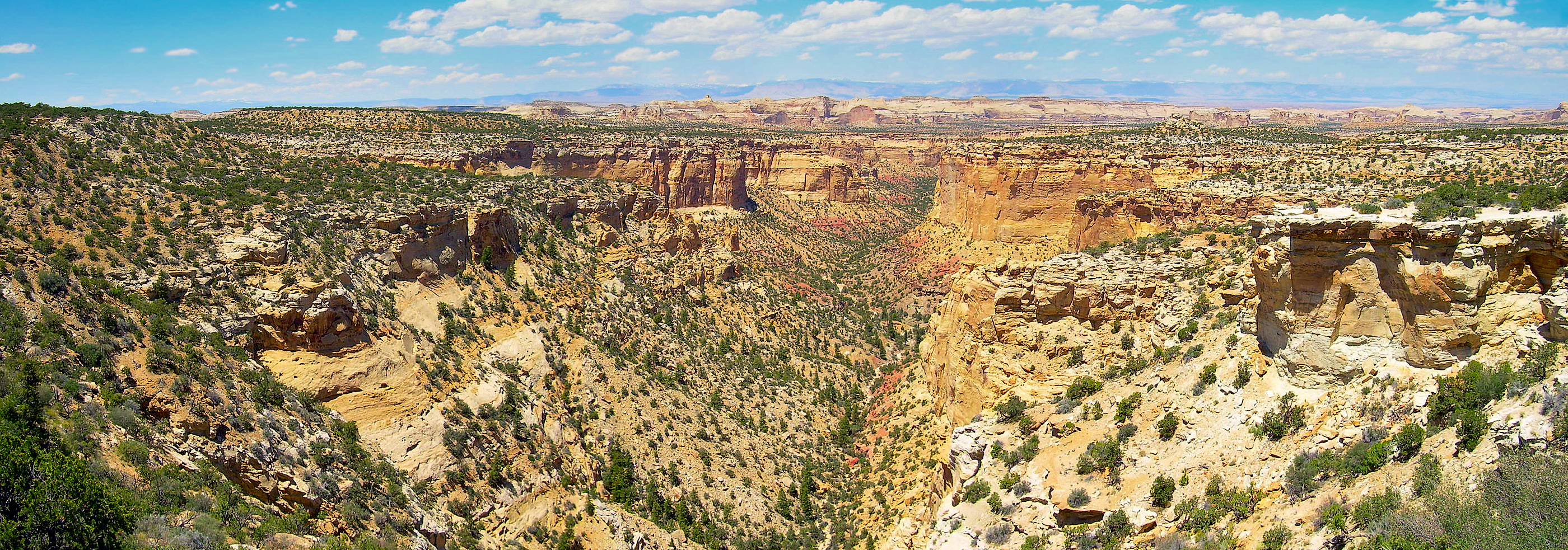 Panorama of Eagle Canyon from Interstate 70 in Utah.